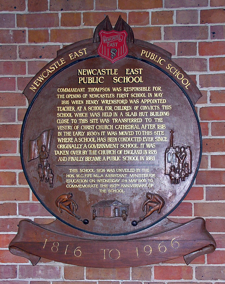 Plaque on the Wall of Newcastle East Public School